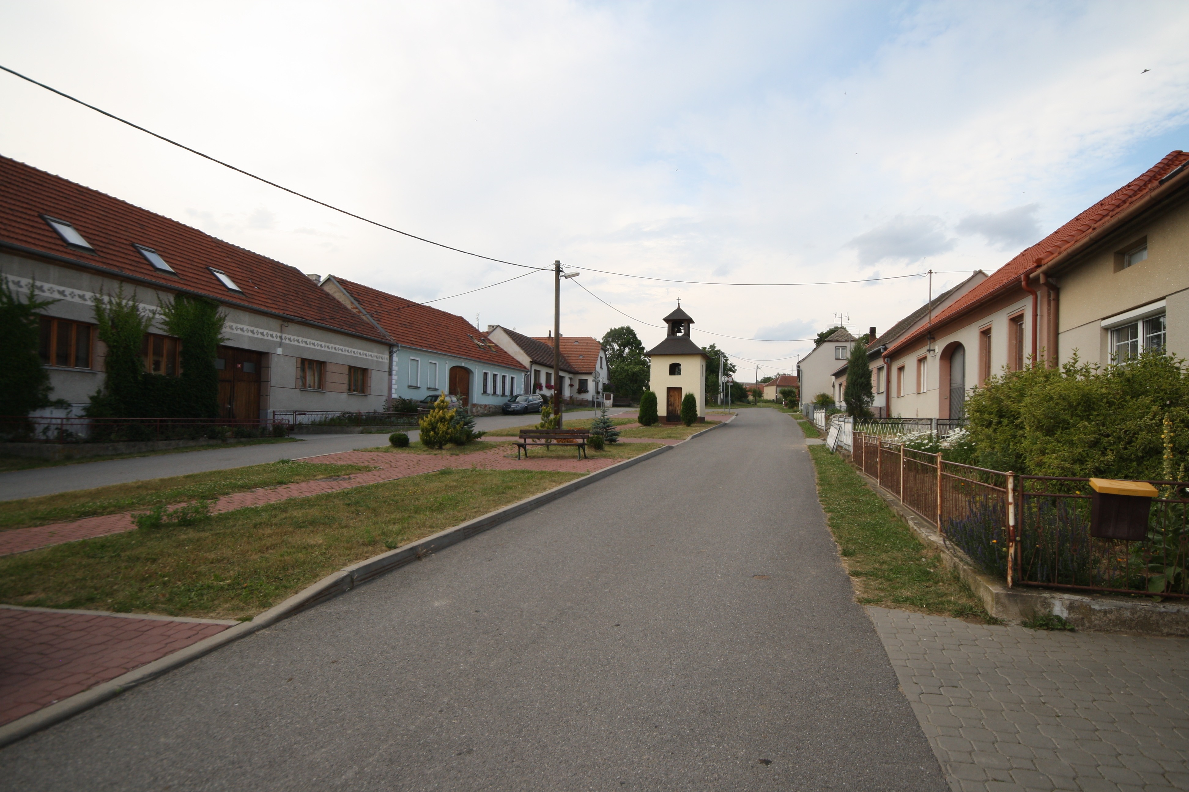 Center of Jedov, Náměšť nad Oslavou.